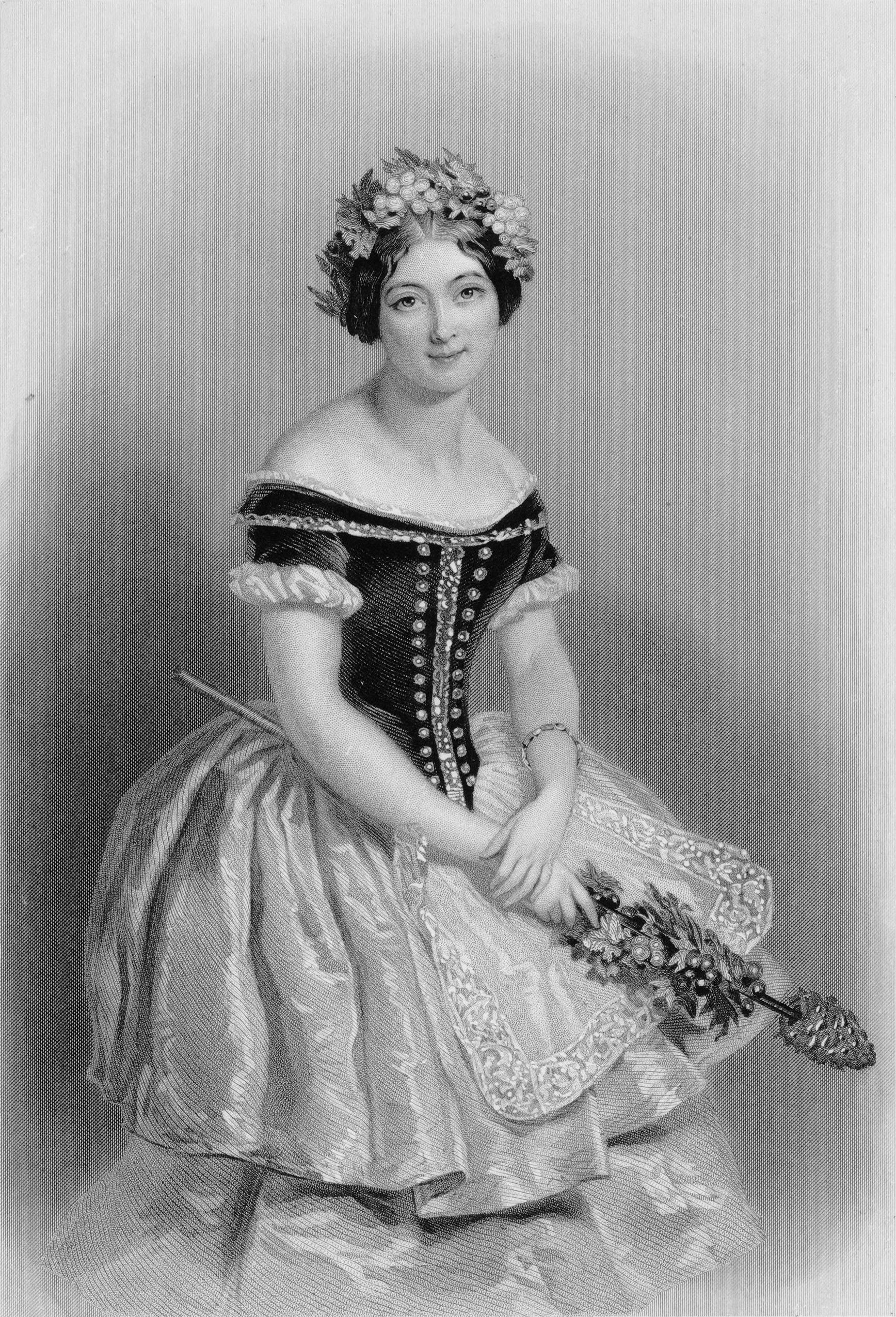 Portrait of Carlotta Grisi in the title rôle of Giselle. 20.5 x 16.5 cm